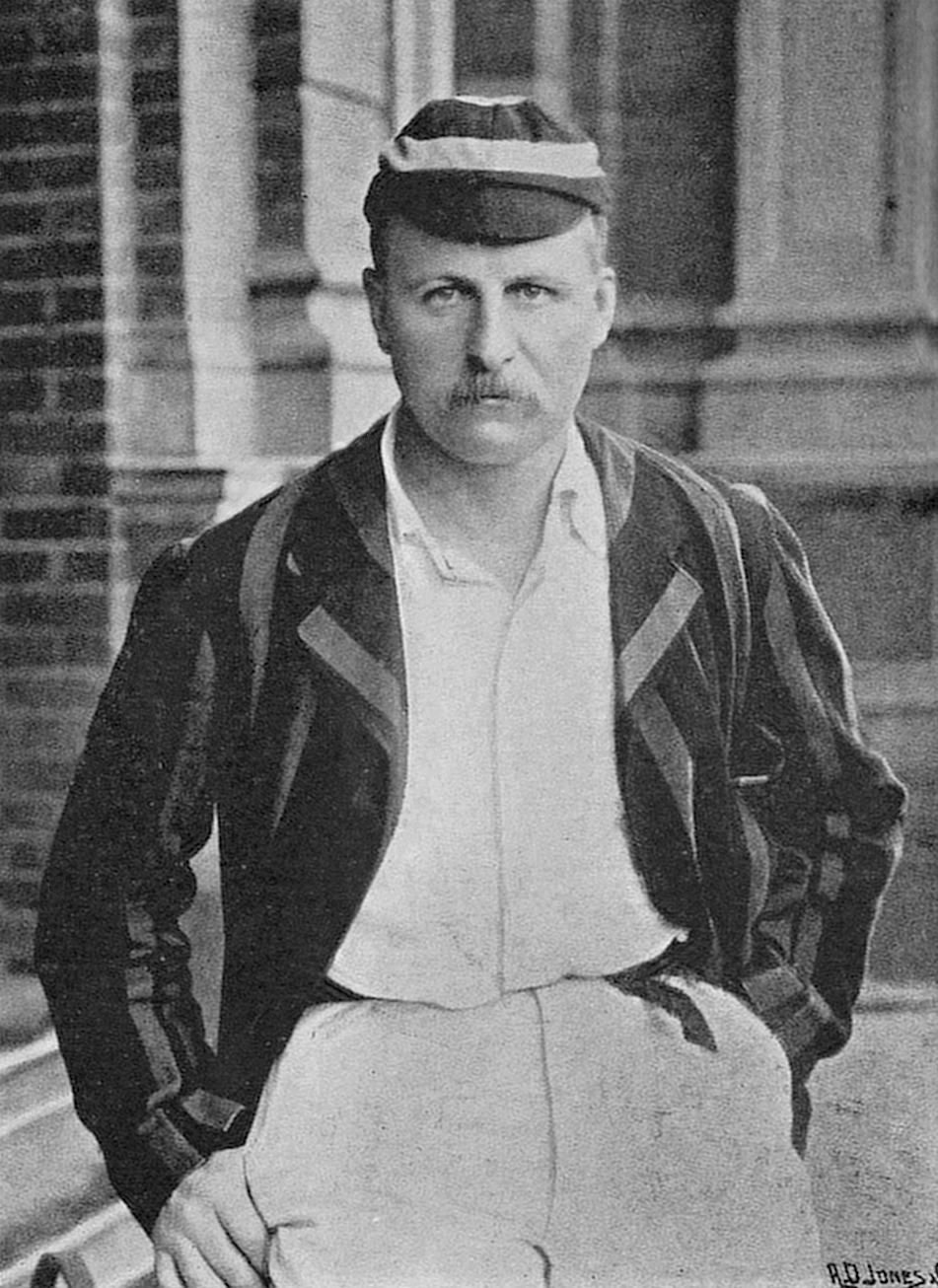 Scan of Cricketer George Vernon